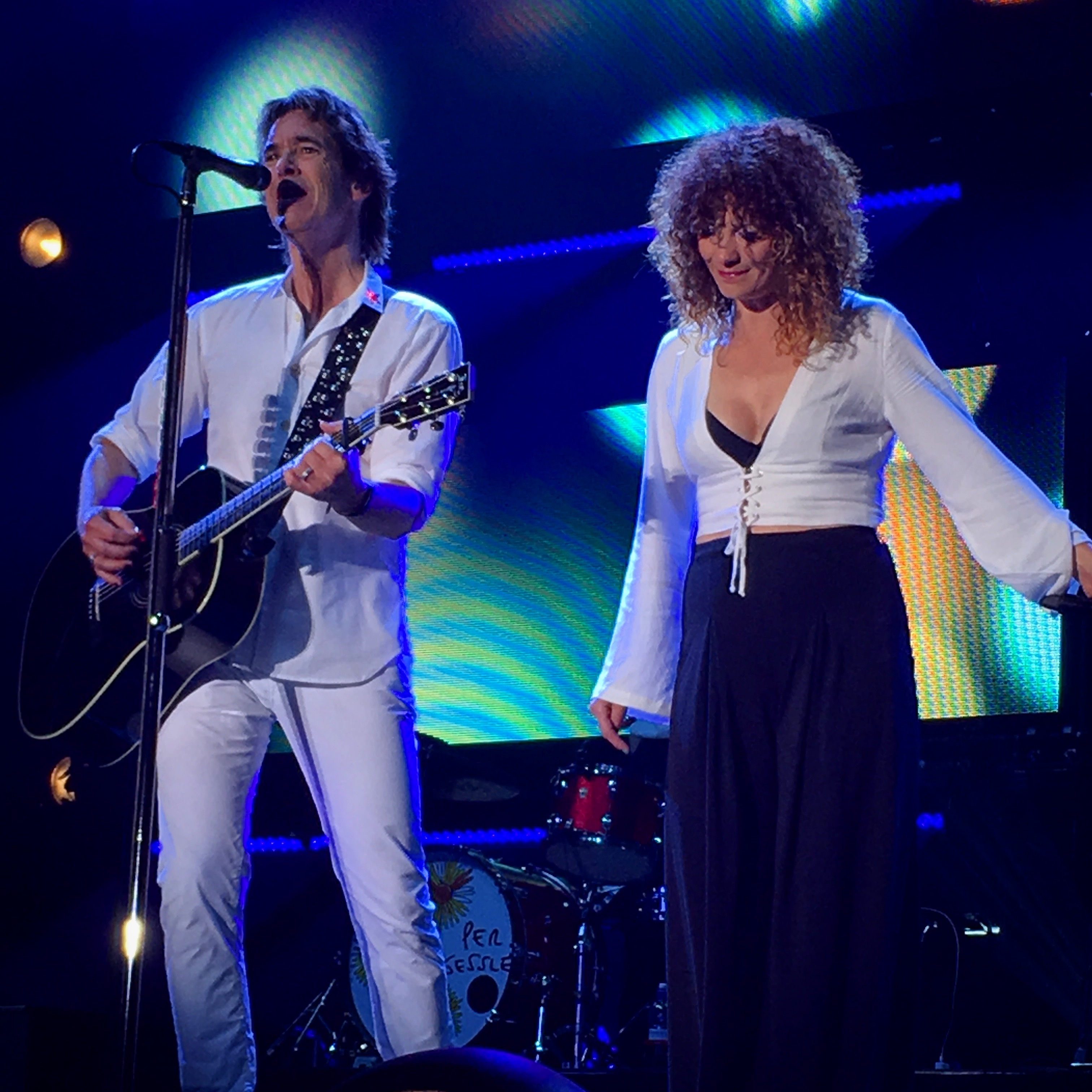 Per Gessle and Helena Josefsson during a concert in Grebbestad, 21.07.2017 - En vacker kväll sommarturne 2017